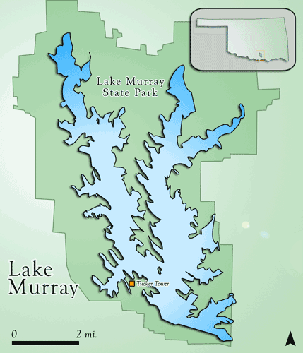 Map drawn from satellite imagery.